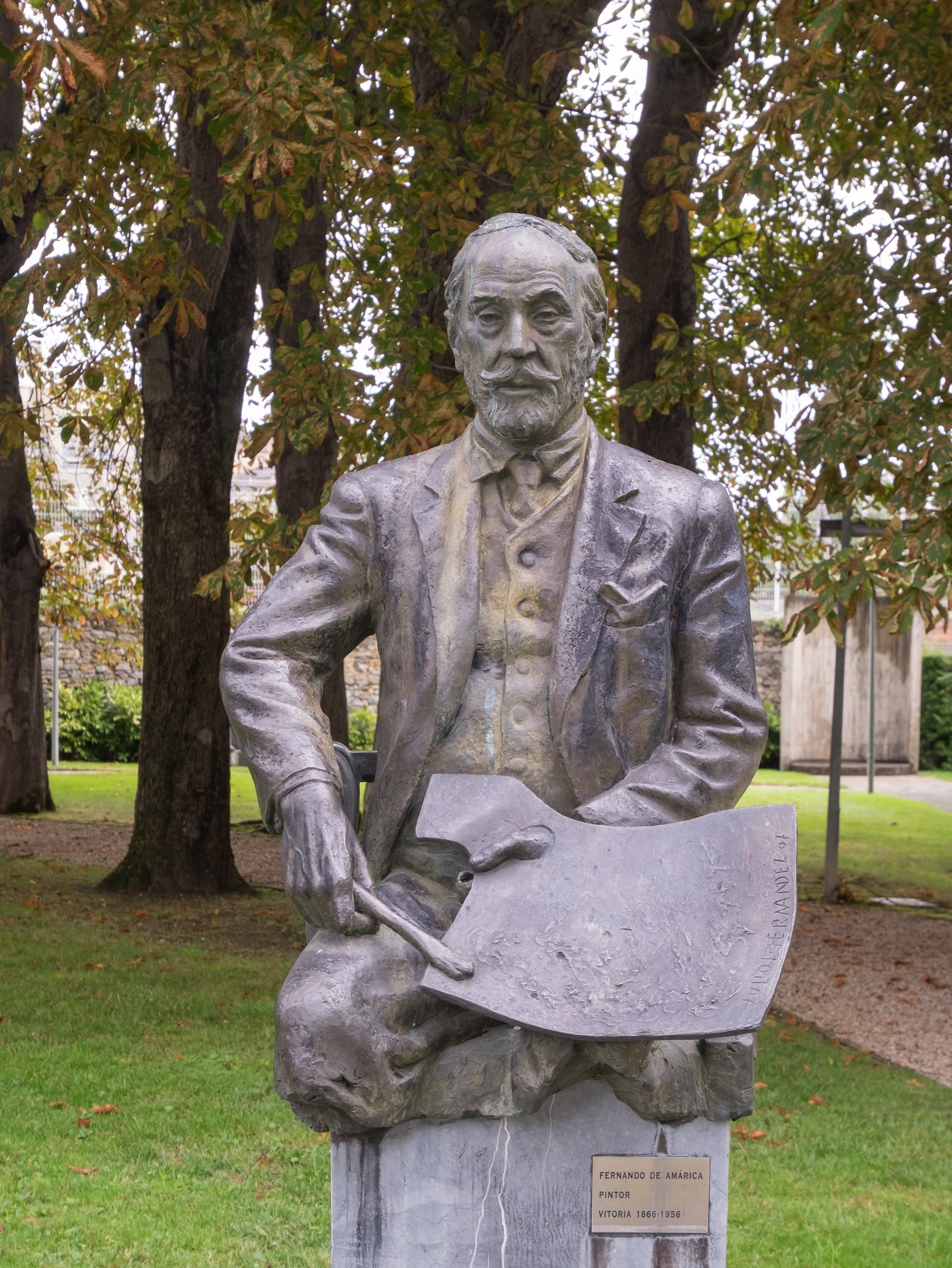 Statue of the paintor Fernando Amarika at the Museum "Museo de Bellas Artes" in Vitoria-Gasteiz, Basque Country, Spain